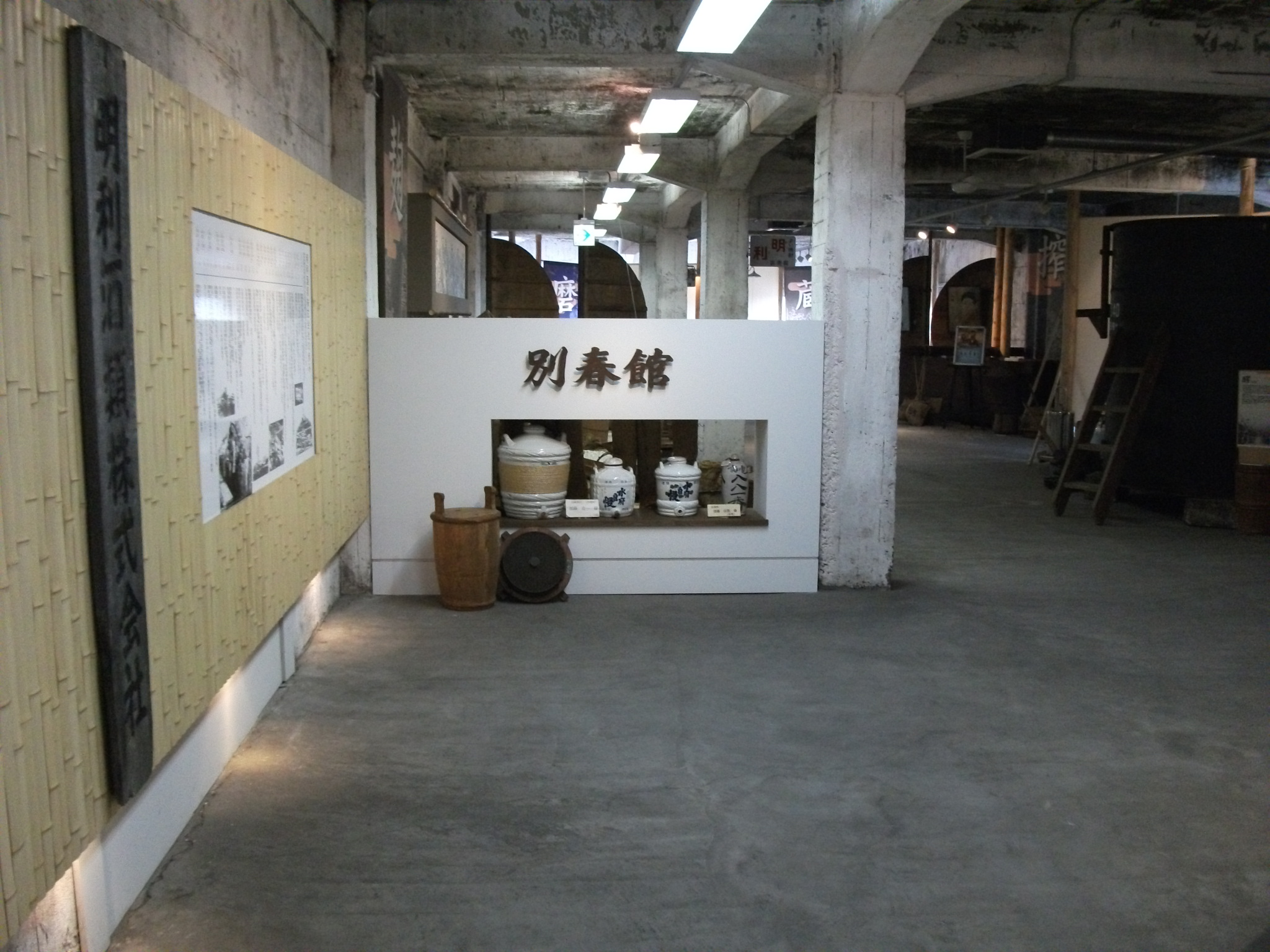 brewing museum"Bessyunkan" (Mito, Japan)